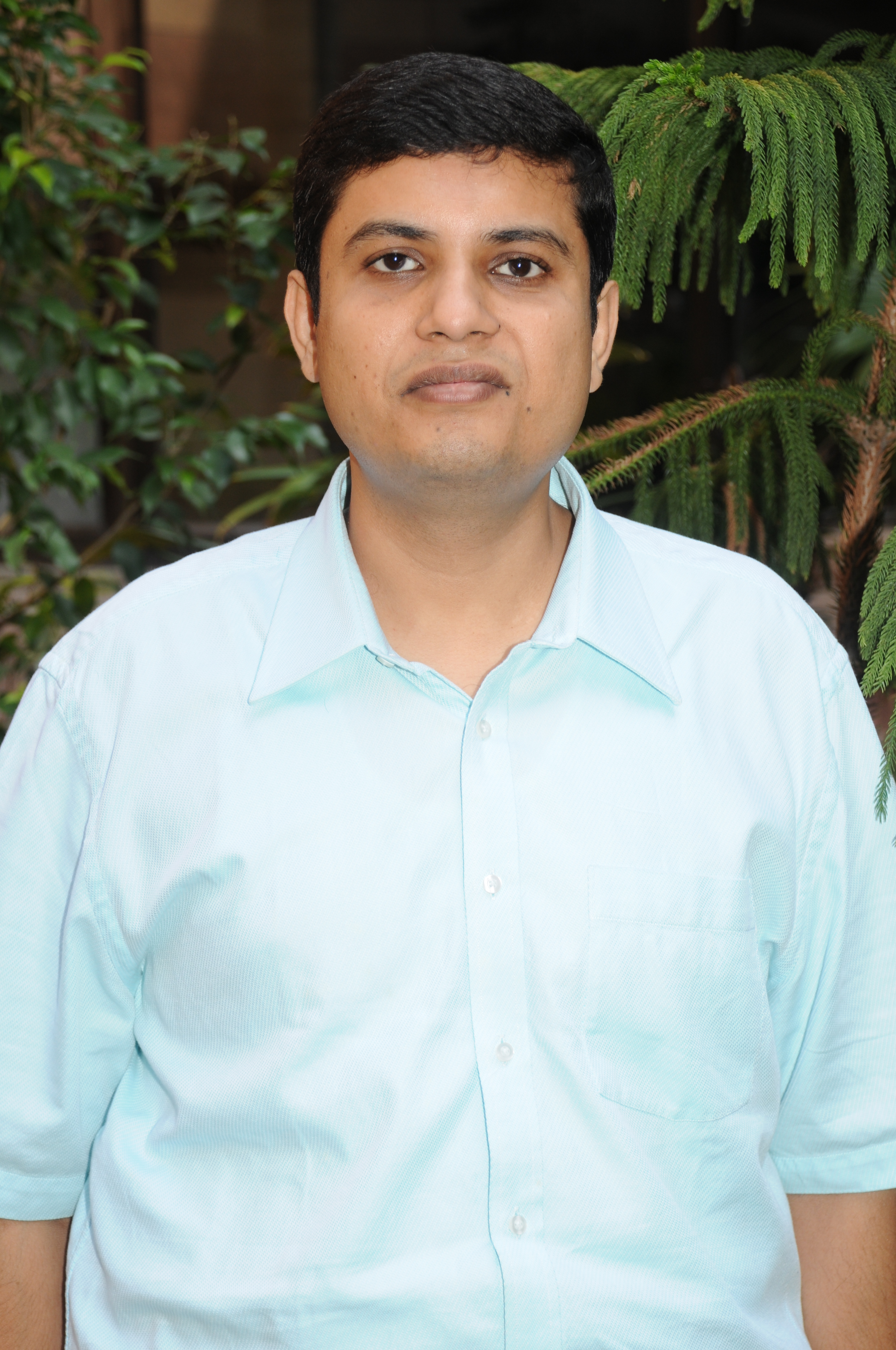 Dr Sanjeev Das